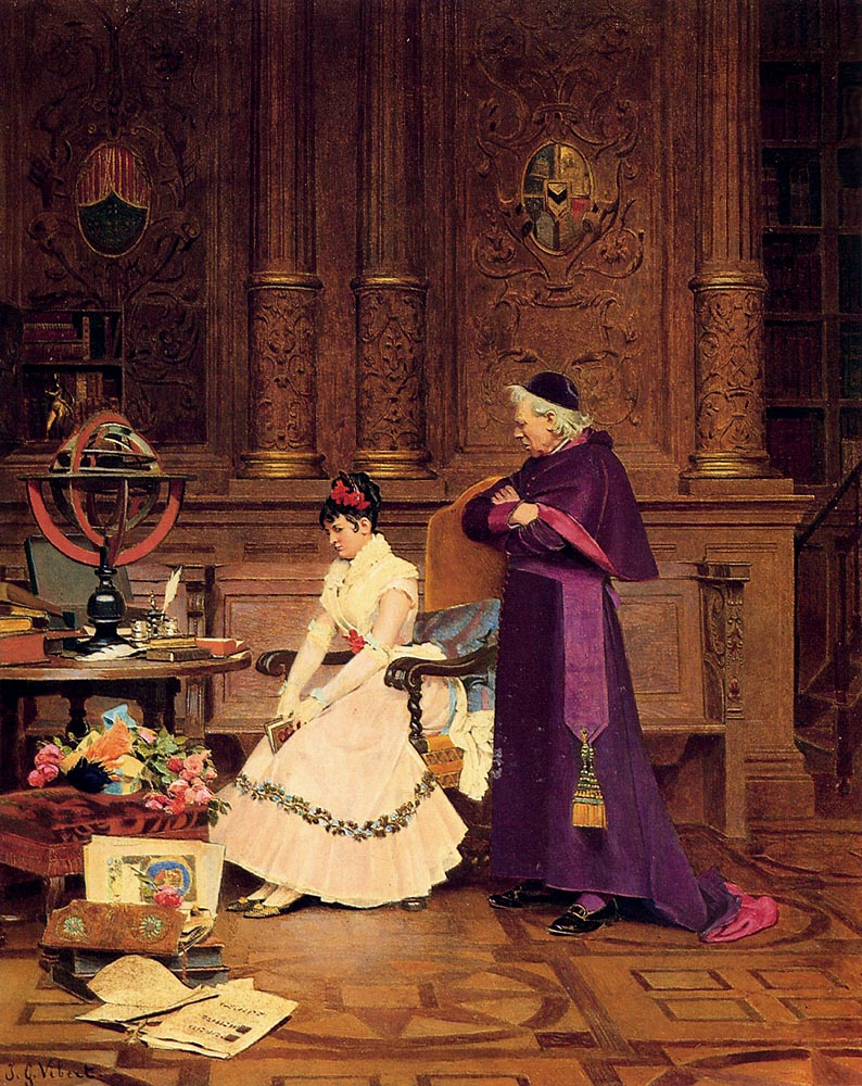 The_Reprimand